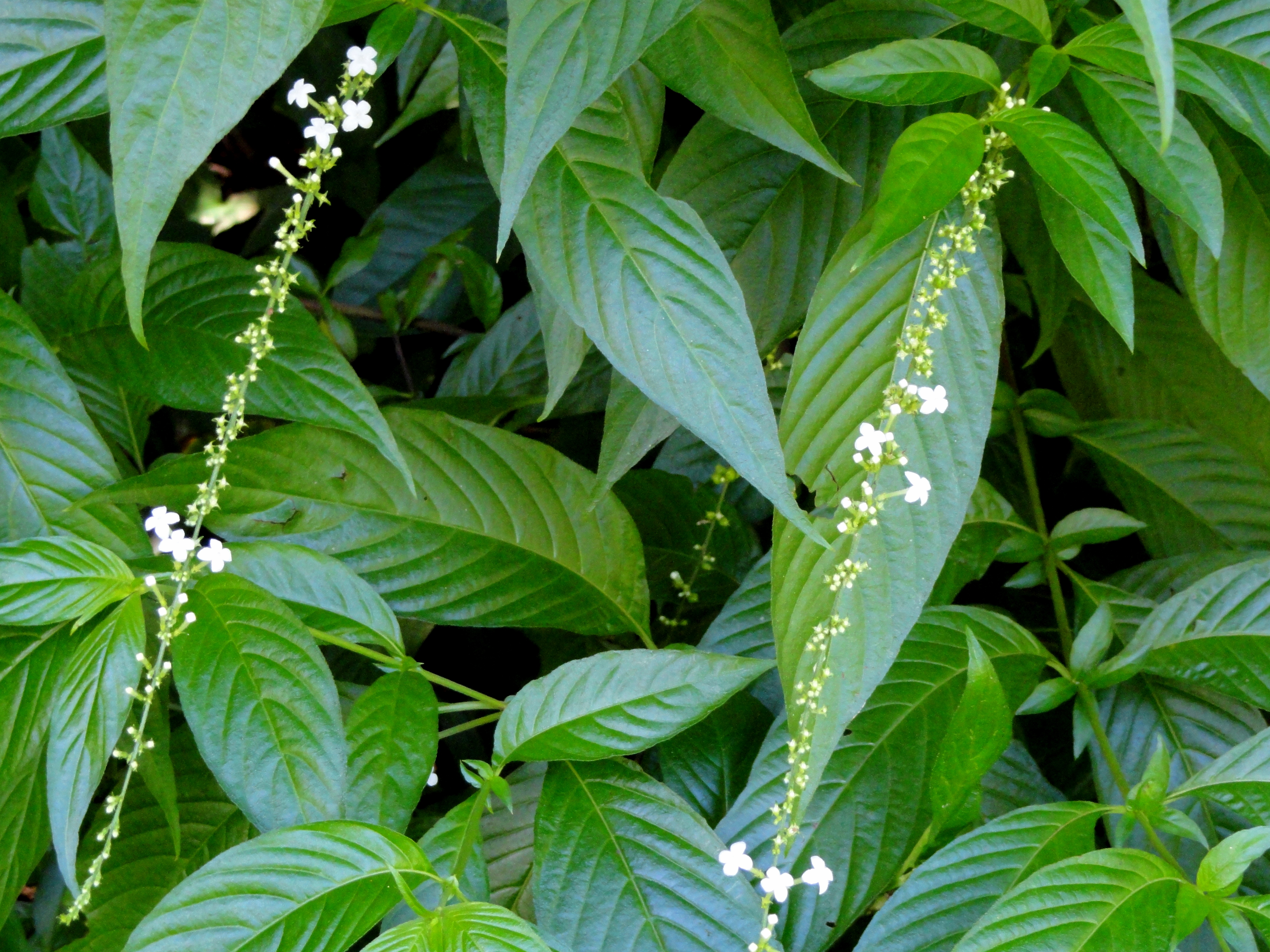 San Juan Botanical Garden (Botanical Garden of the University of Puerto Rico), Río Piedras, Puerto Rico.